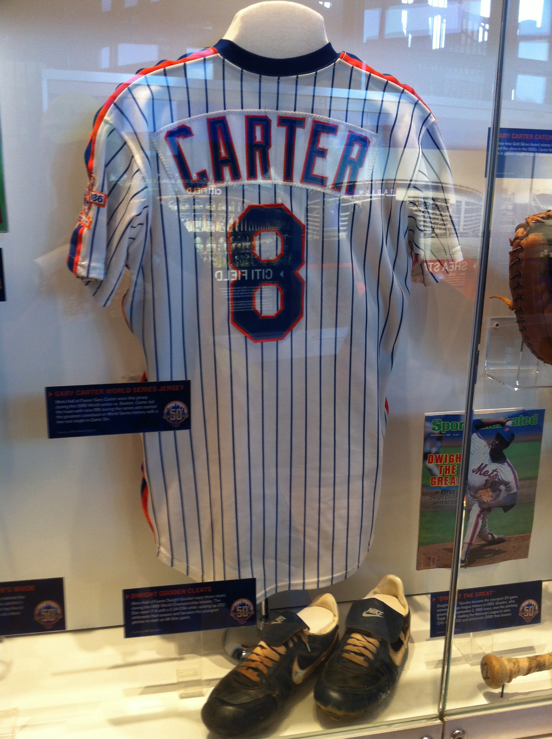 Gary Carter New York Mets jersey displayed at Citi Field, New York, 8 July 2012.